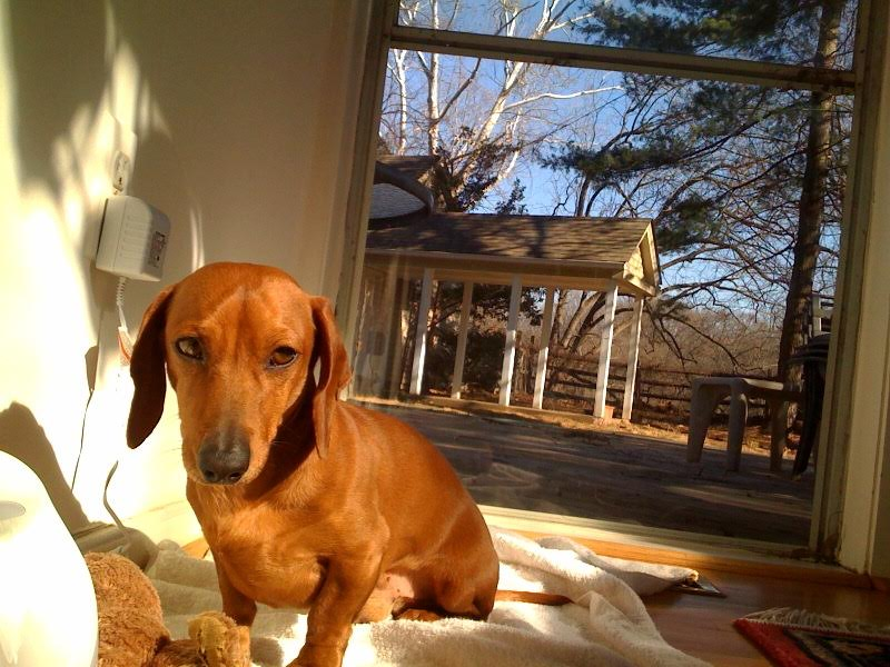 Pure bred miniature dachshund, brick red coat, 10 lbs